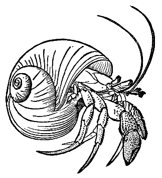 Pagurus bernhardus, the hermit-crab